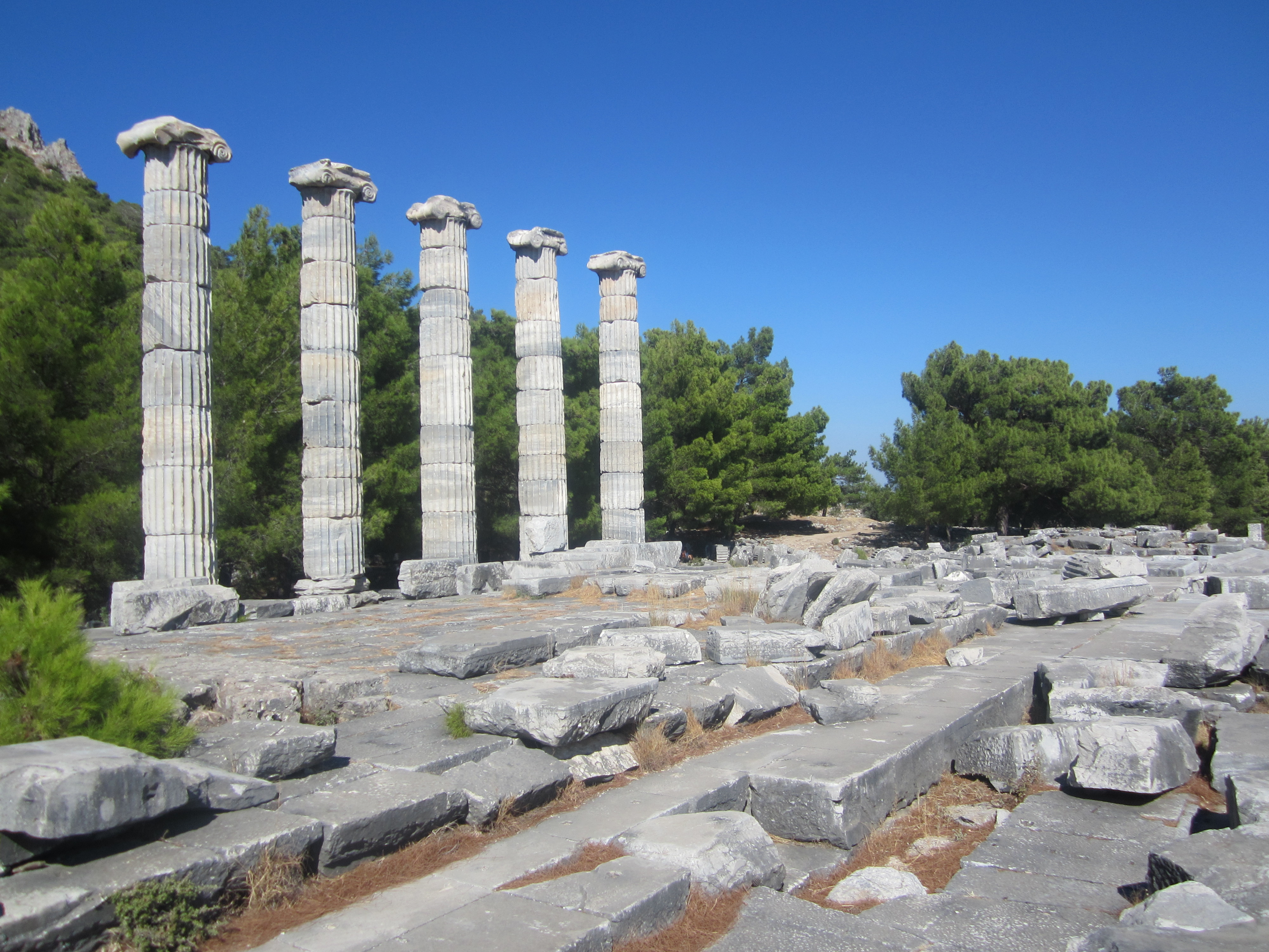 Ruins of the temple of Athena (Athene) Polias. Archaeological site of ancient Priene in modern Turkey.